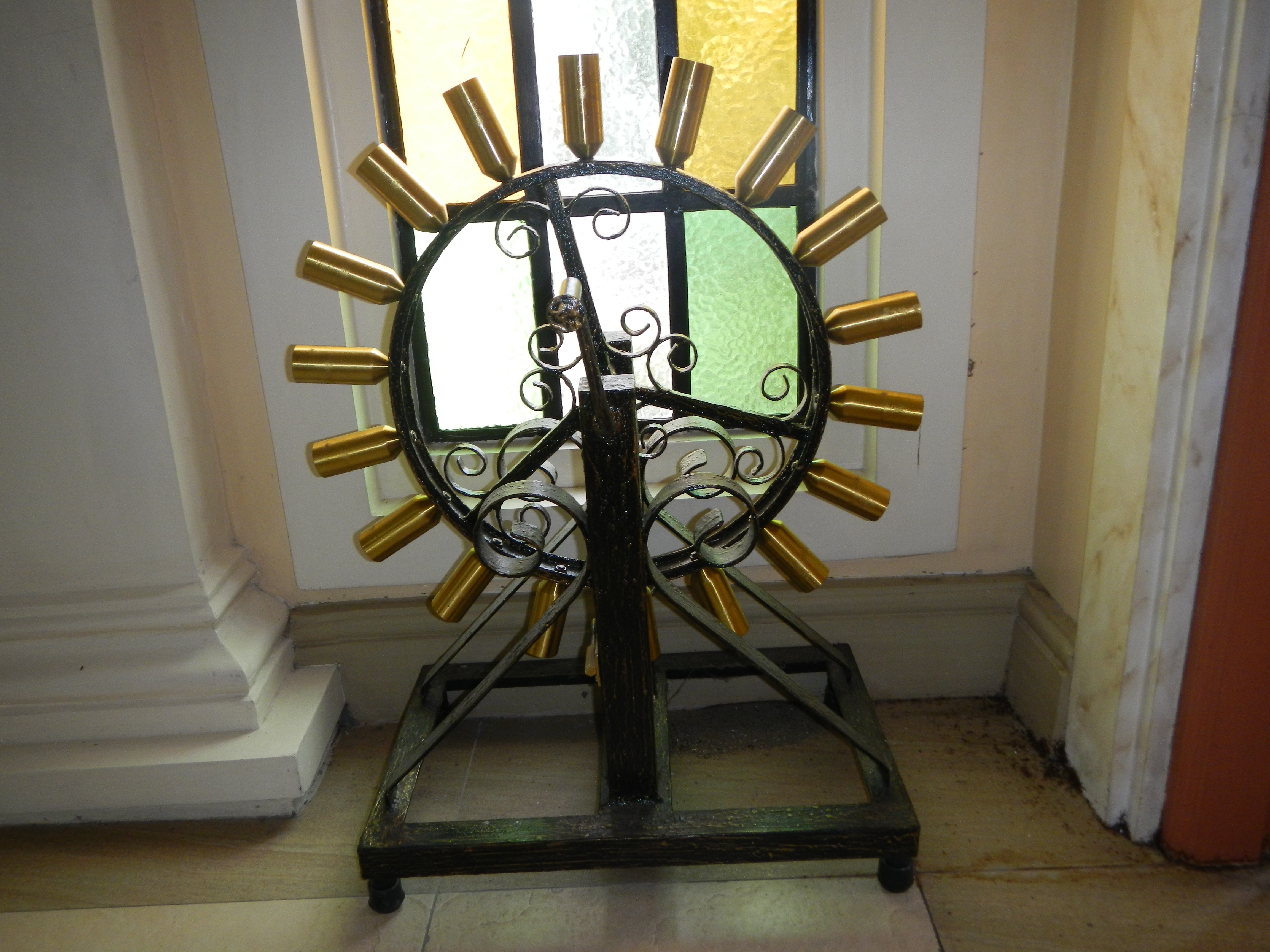 St. Jude Thadeus Holy Mass Church bells San Leonardo, Nueva Ecija [1]